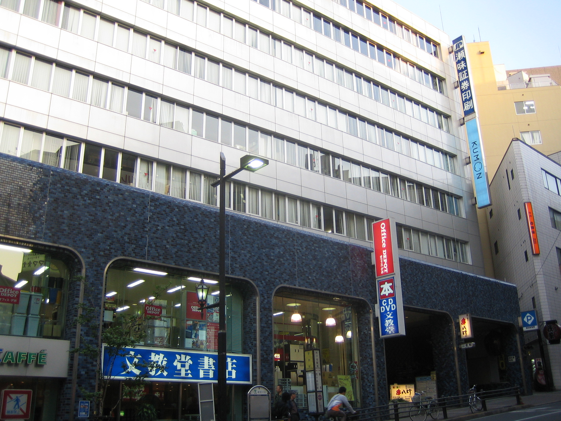 Tokyo head office of Kumon Institute of education Co., Ltd. (日本公文教育研究会), in Chiyoda, Tokyo, Japan